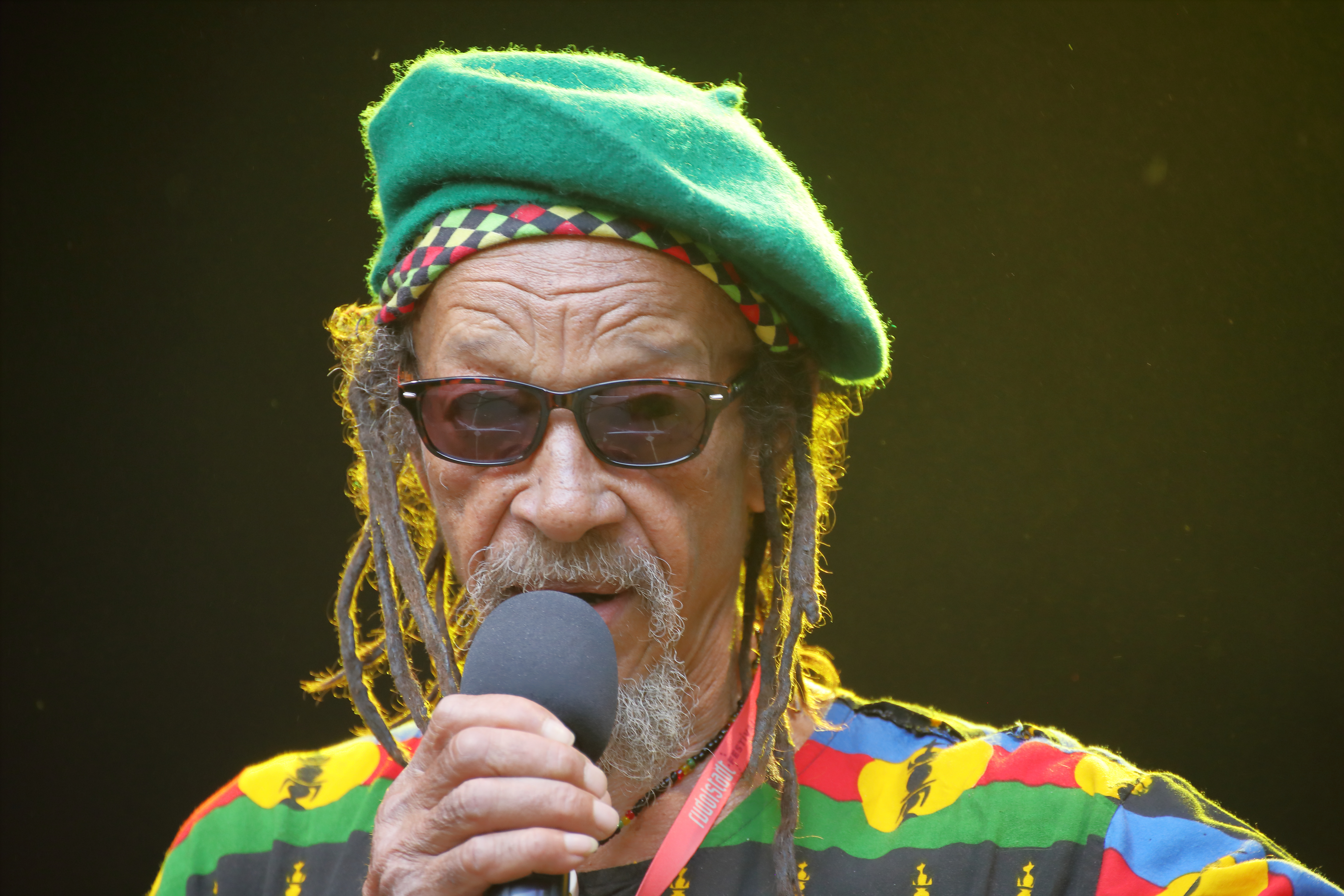 Inna De Yard at Rudolstadt-Festival 2019.